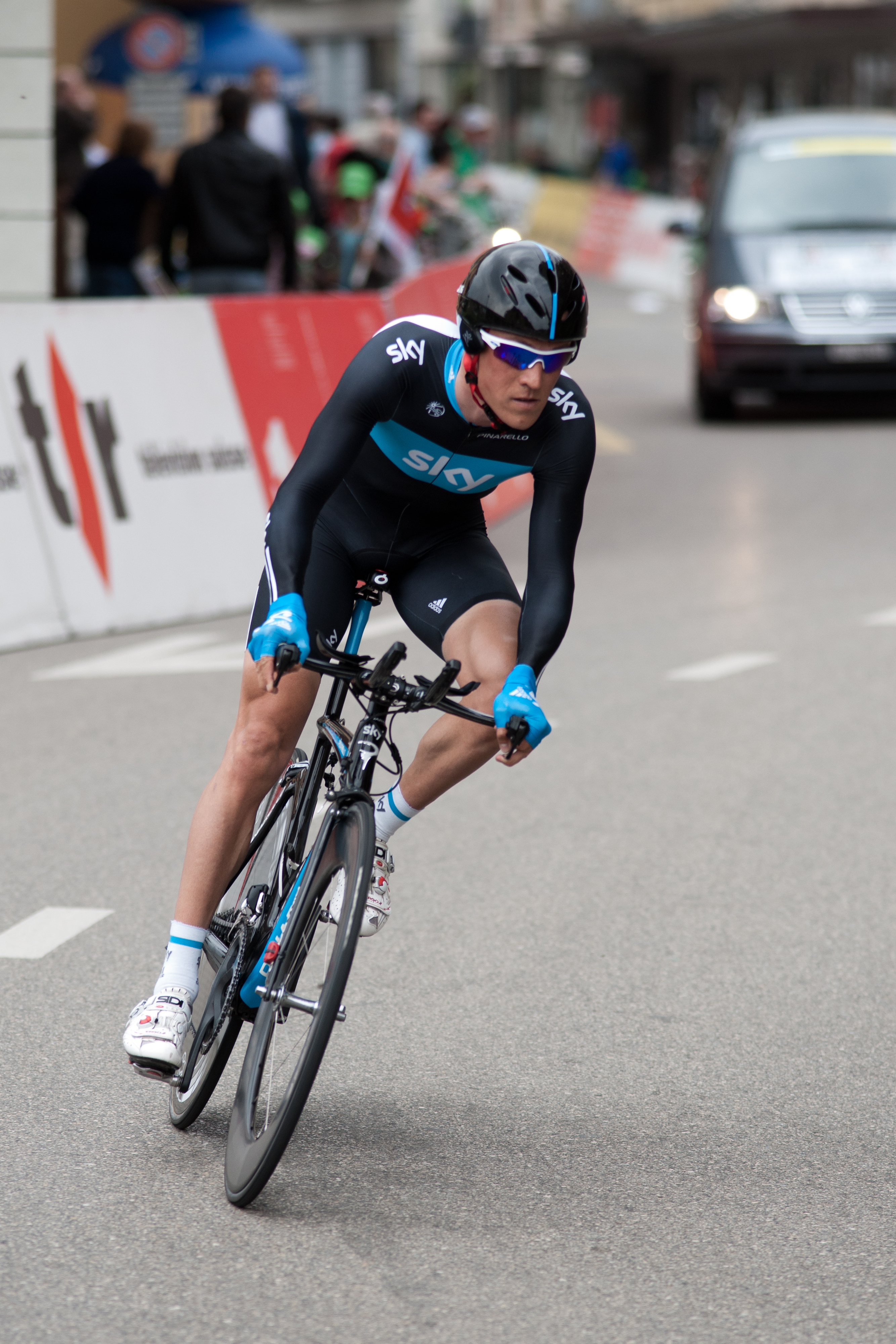 Serge Pauwels during the 3rd stage of the Tour de Romandie 2010.